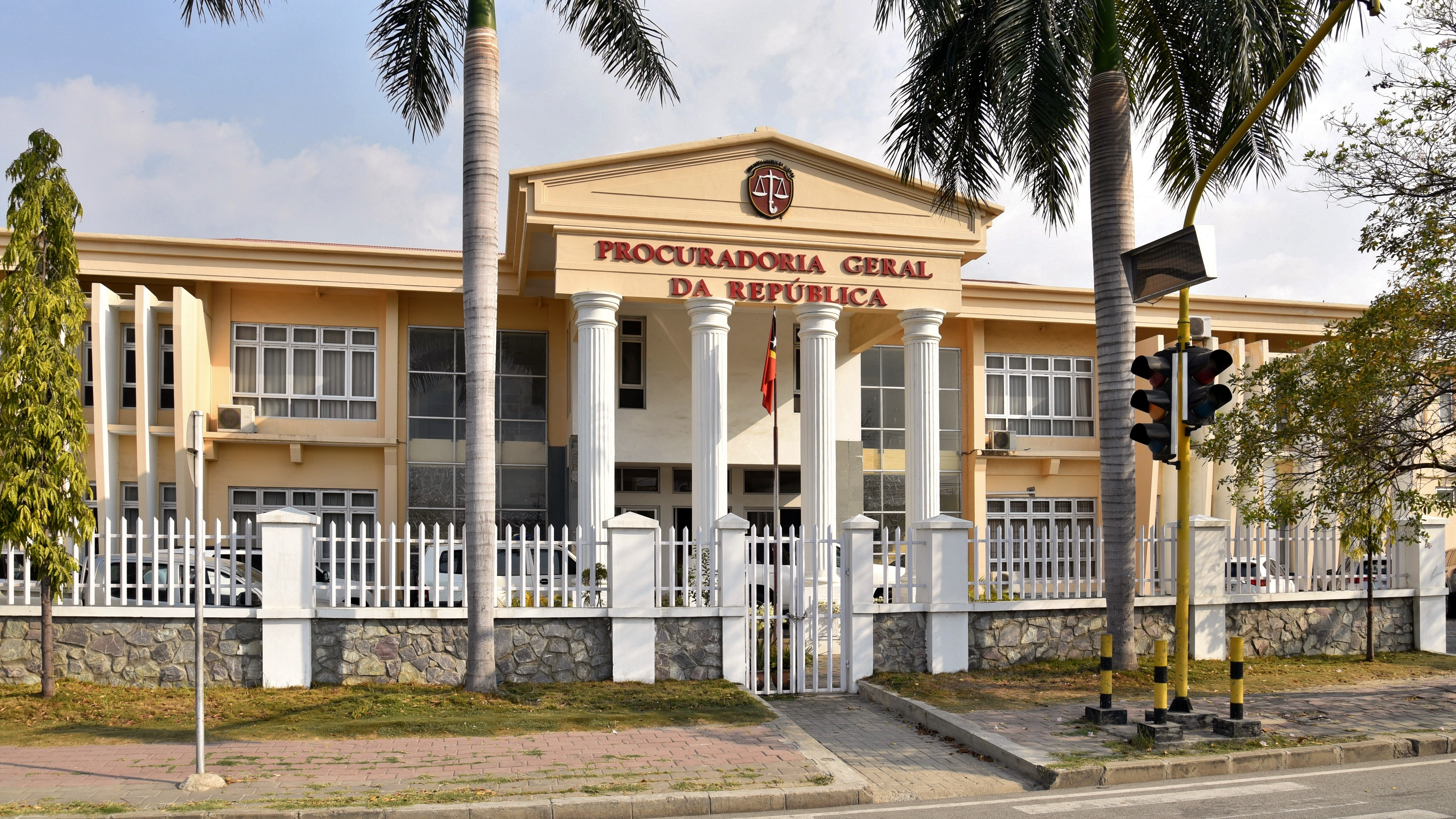 View of the Procuradoria Geral da República (East Timor) (building), Dili, East Timor